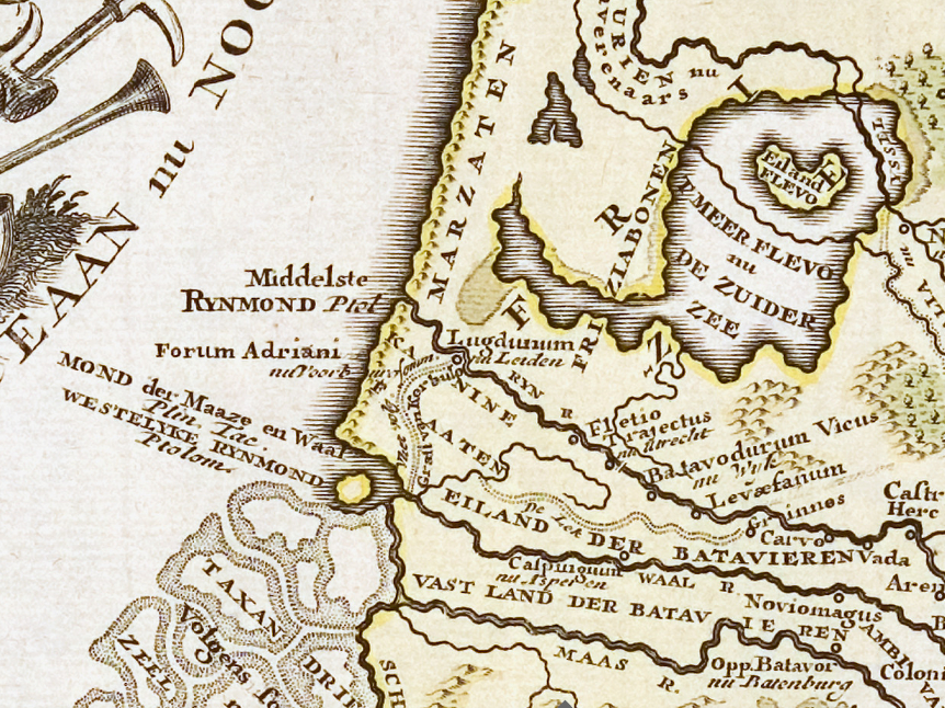 Fragment of Geography of the Netherlands in roman times by Isaak Tirion, 1750